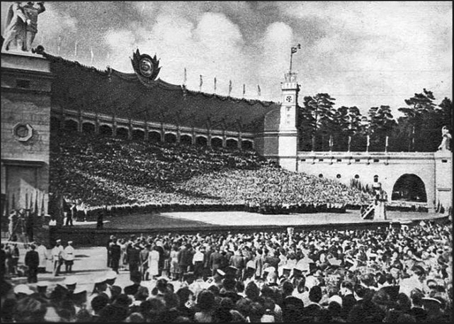 Holiday songs. Grand Stage. Mezhapark, Latvia, 1955. Architects: V. Shnitnikov and G. Irbite. Sculptor: L. Bukovsky.